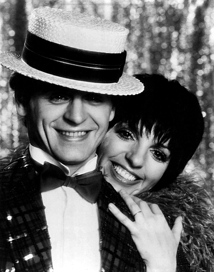 Publicity photo of Mikhail Baryshnikov and Liza Minnelli for Baryshnikov on Broadway. Copyright found for ("motion picture"), video tape recording, only, dated 4-24-1980. This was a TV special recording of the live performance. Television Academy Foundation